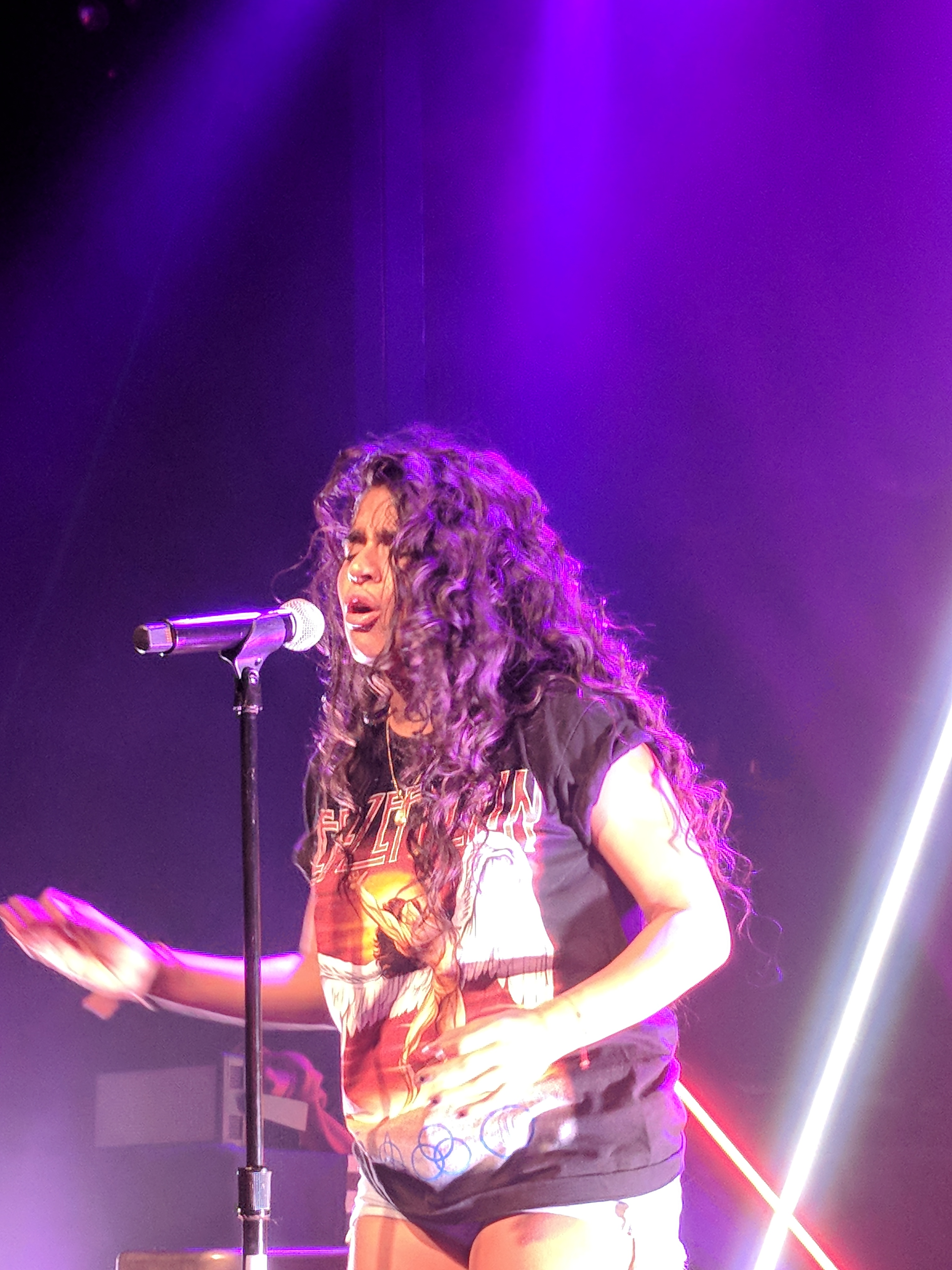 Jessie Reyez performs at Verizon x Pandora Presents at Rough Trade in Brooklyn